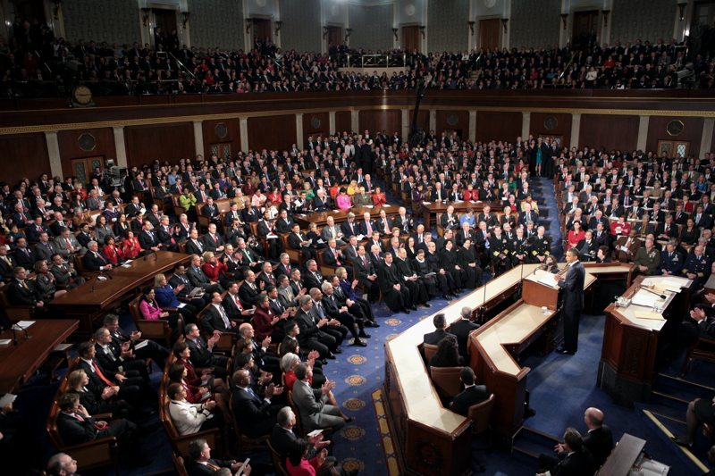 U.S. President Barack Obama delivers the 2011 State of the Union Address to a joint session of the United States Congress.